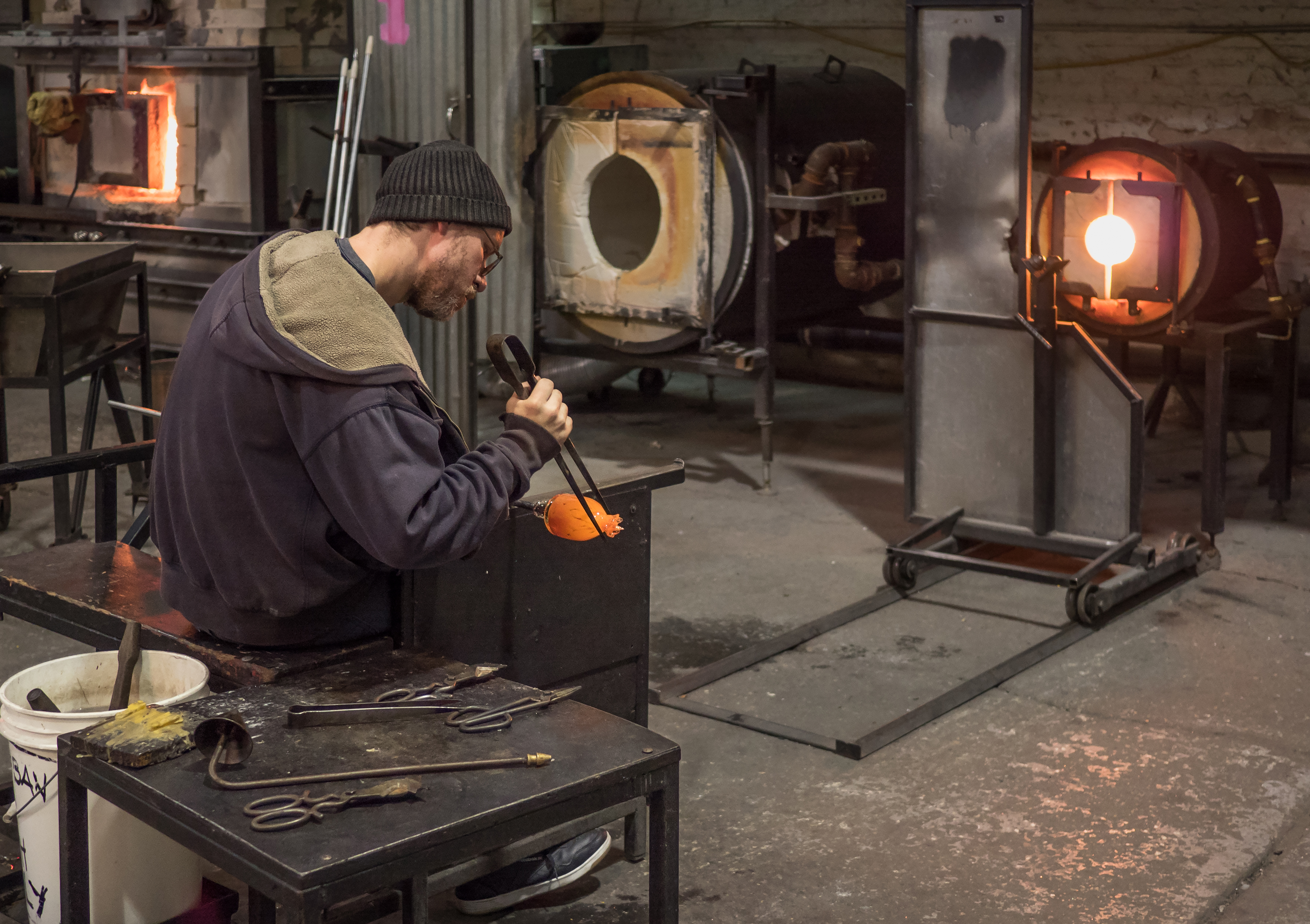 A man working on a glass project after removing it from a kiln at Brooklyn Glass. Open House New York Weekend 2018.